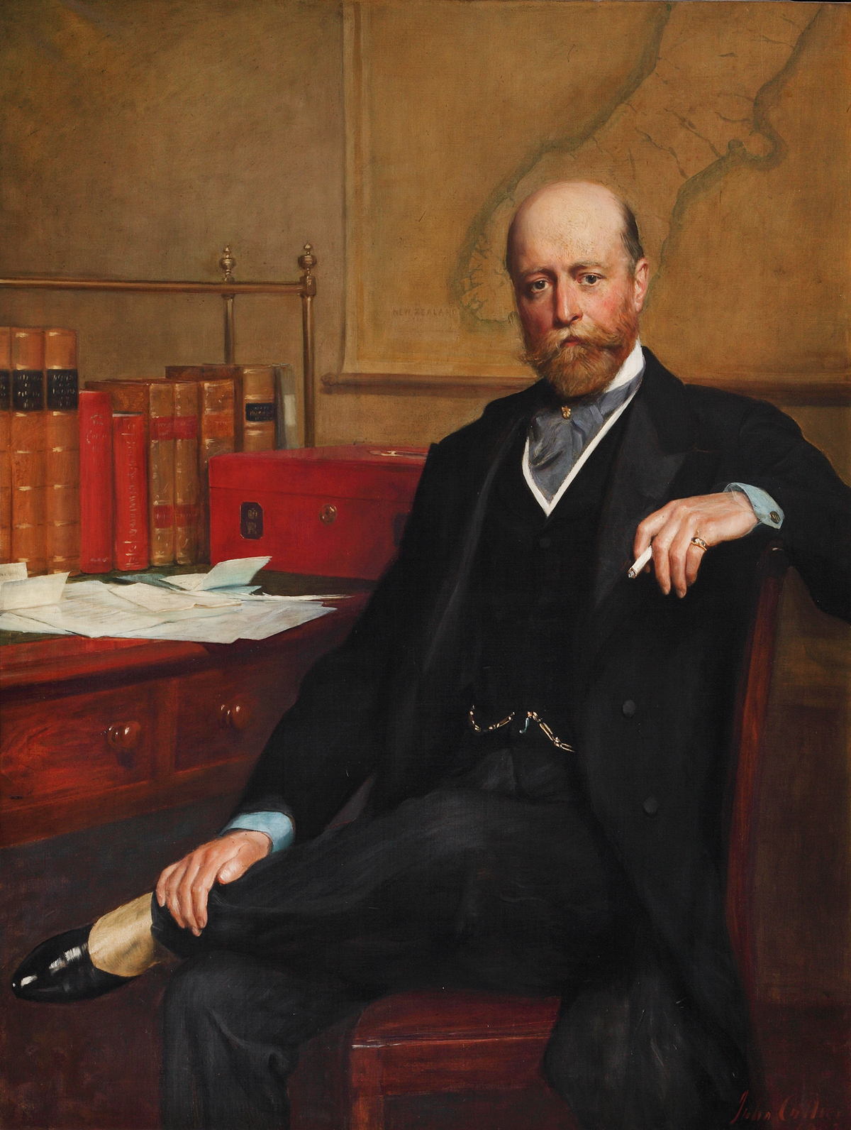 Portrait of Sir William Hillier Onslow (1853–1911), 4th Earl of Onslow, governor of New Zealand. A map of New Zealand can be seen behind him. Property Name Clandon Park